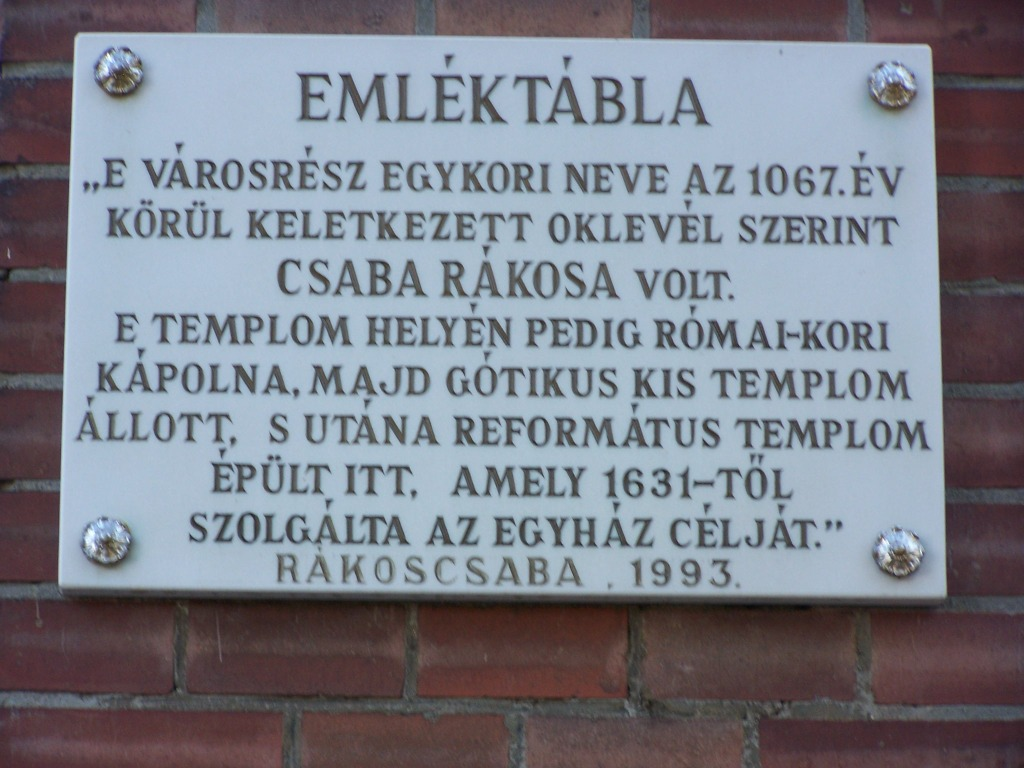 Plaque in the wall of Reformed church in Rákoscsaba